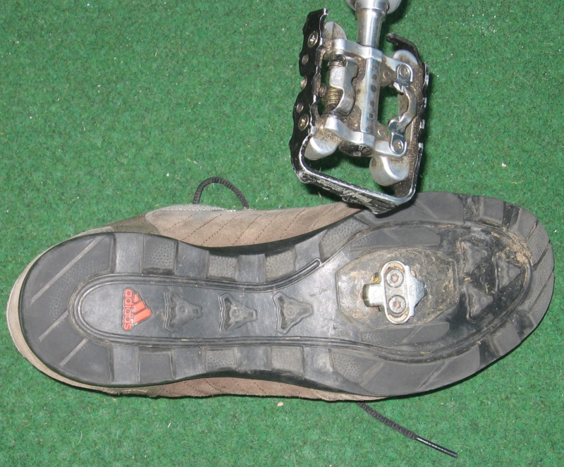 Shimano Pedaling Dynamics, SPD - system bicycle pedal & shoe sole